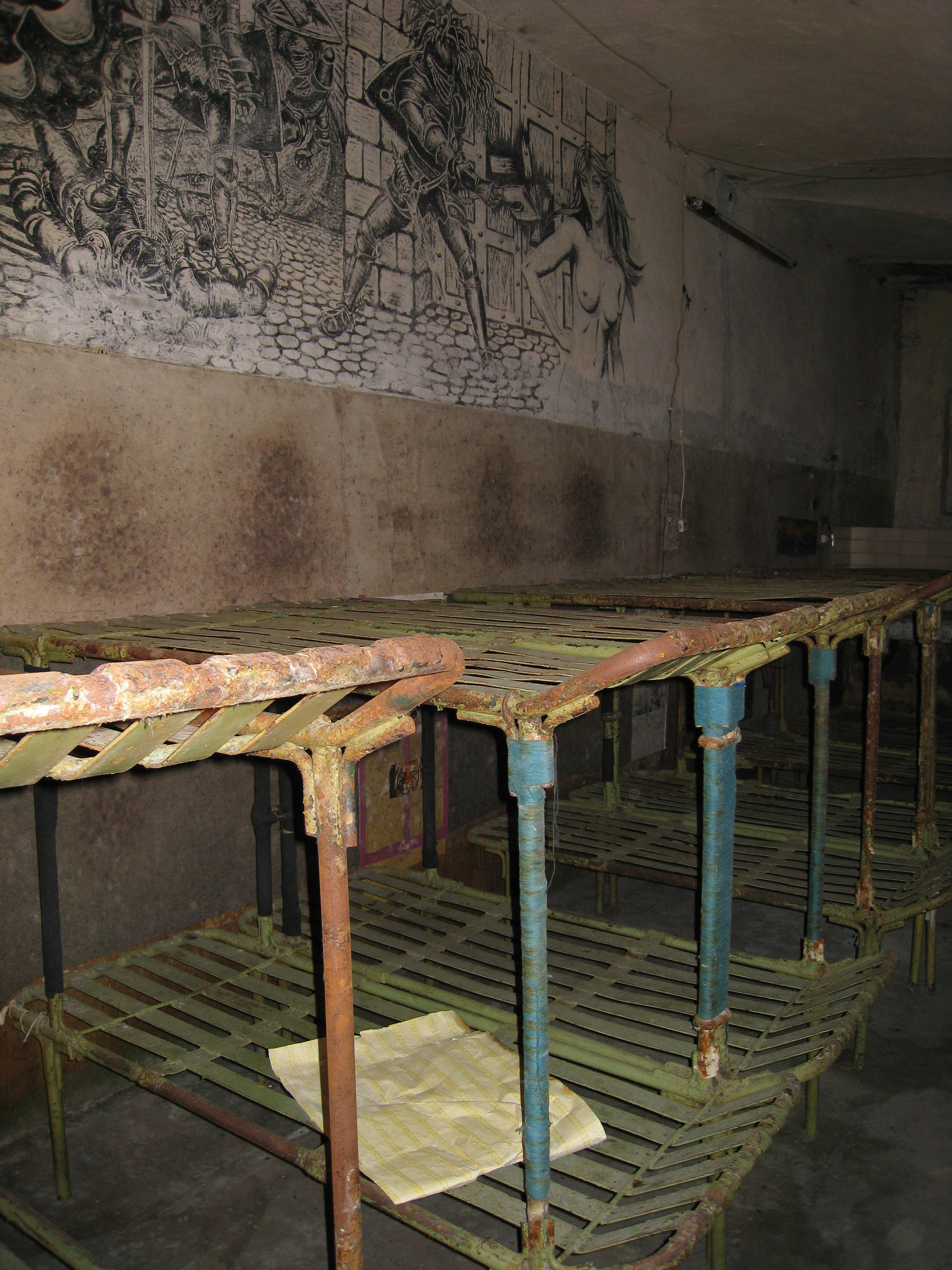 In a typical cell